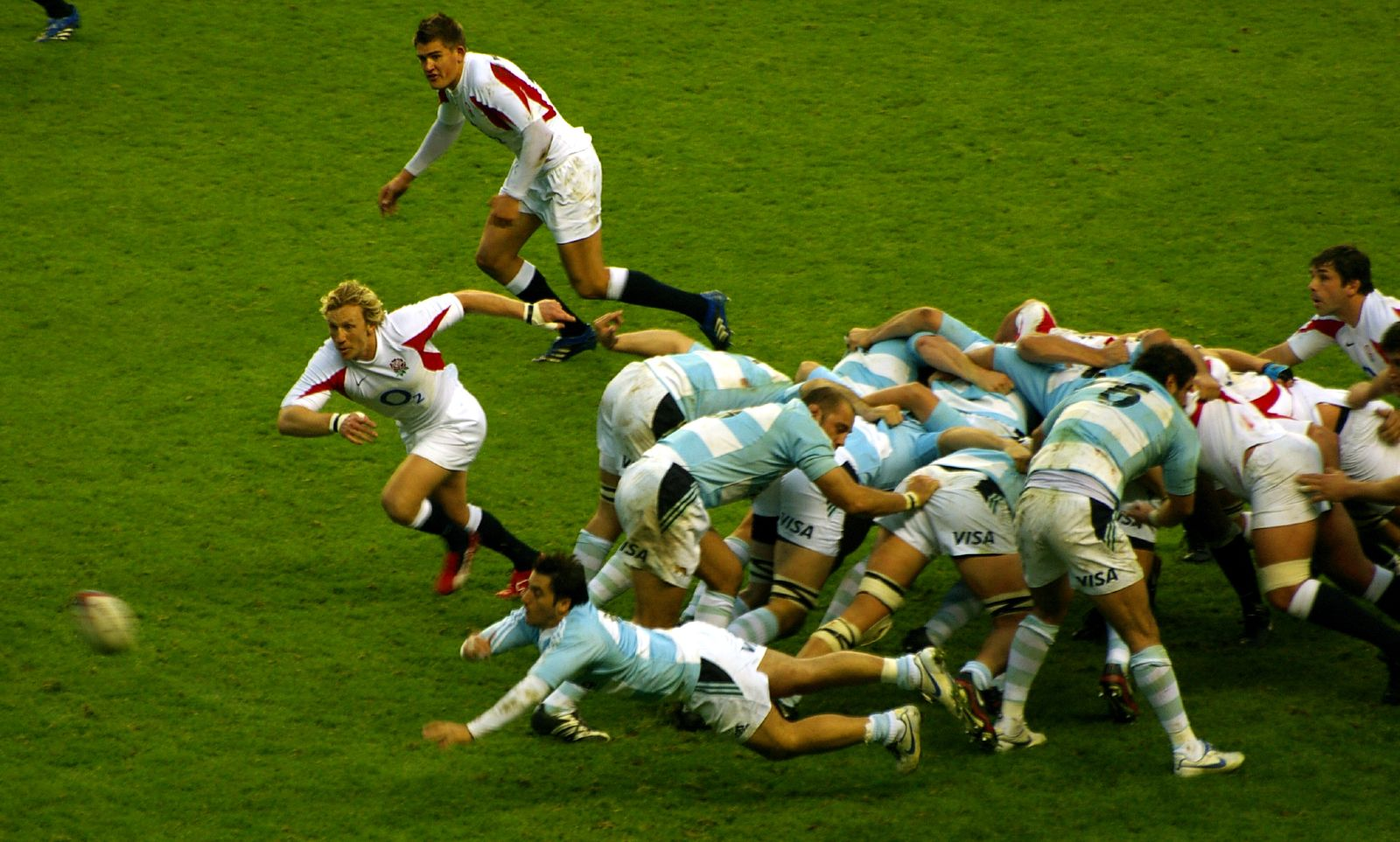 A flying pass by Argentina from the back of a scrum against England at Twickenham stadium in rugby union.